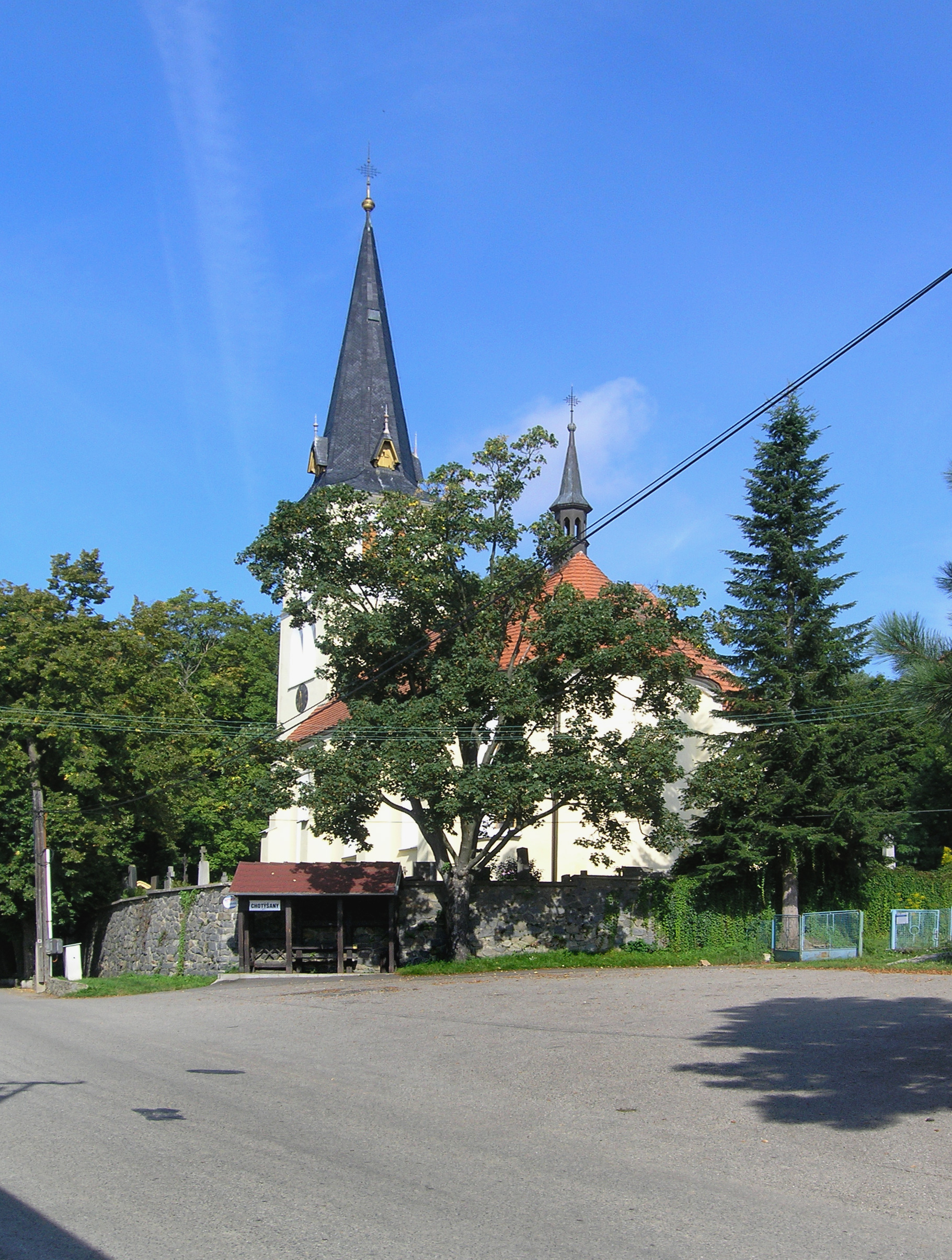 Church of Saint Gall and bus stop in Chotýšany village, Czech Republic